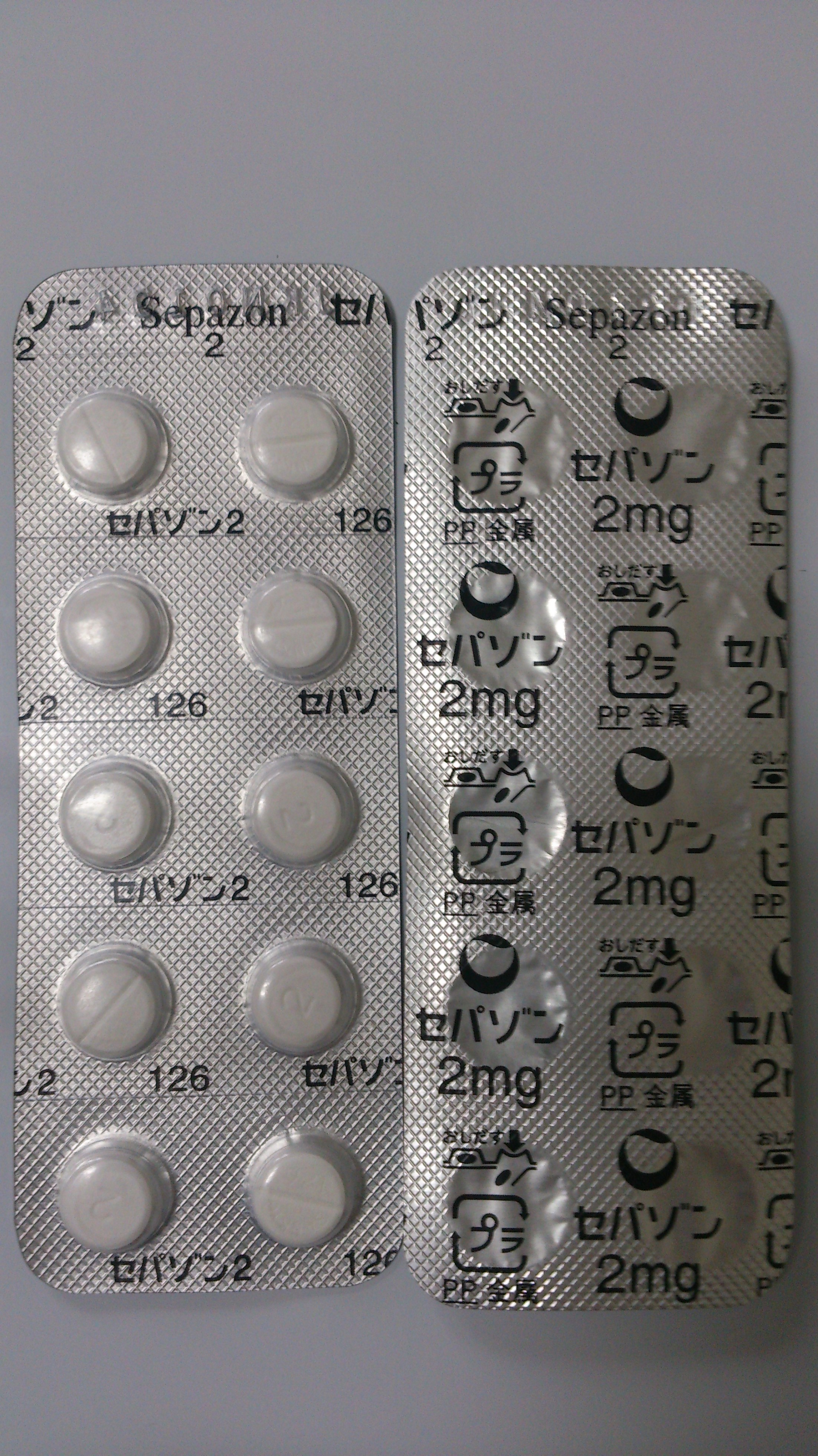 Sepazon (cloxazolam) 2 mg tablets